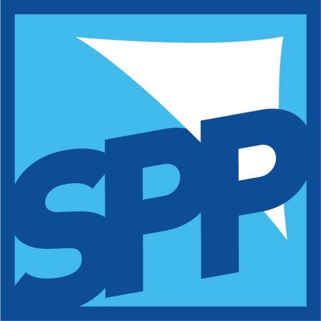 Logo of the Party of Justice and Trust